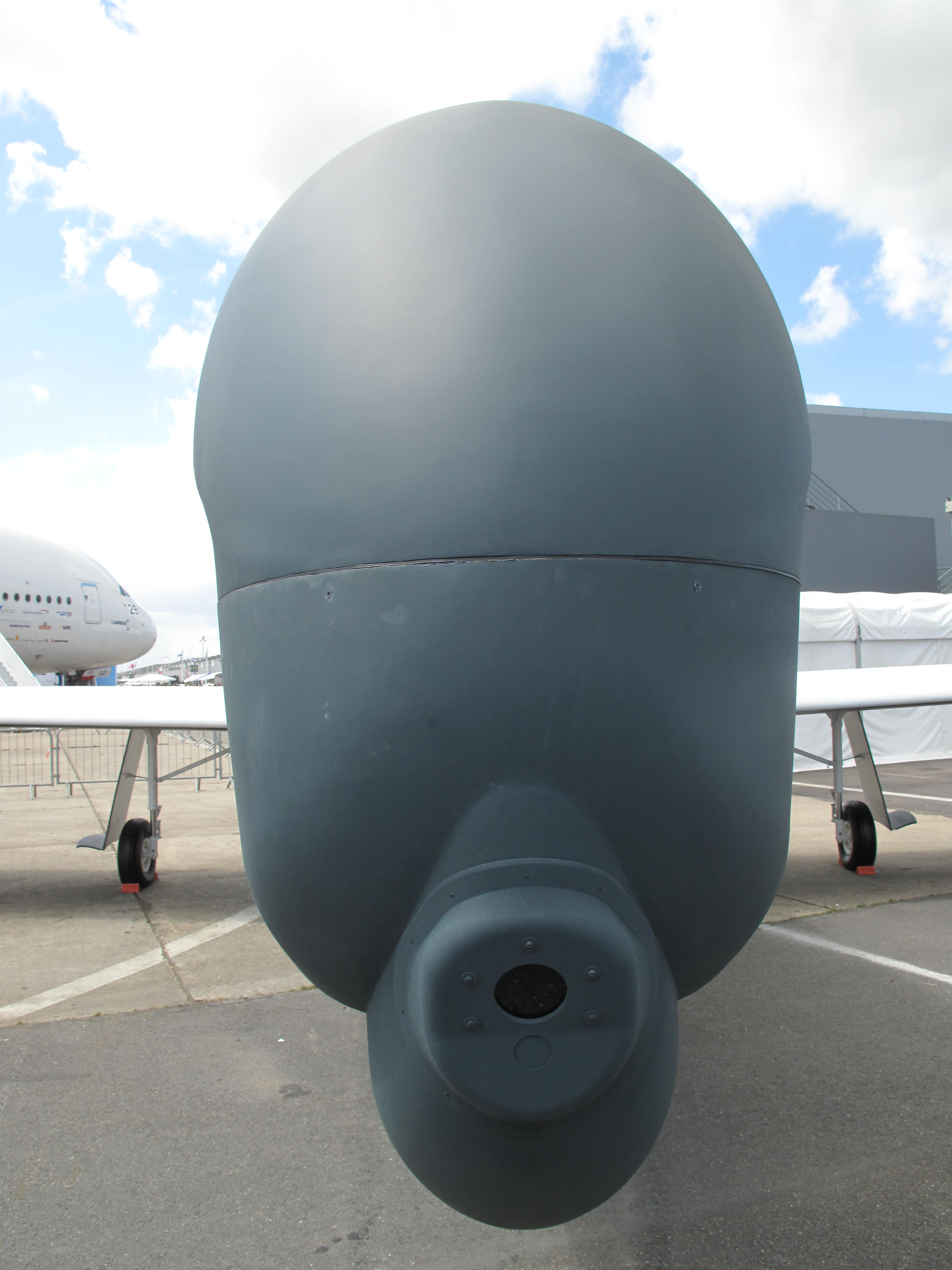 Nose of the RQ-4 Global Hawk at the Paris Air Show 2009